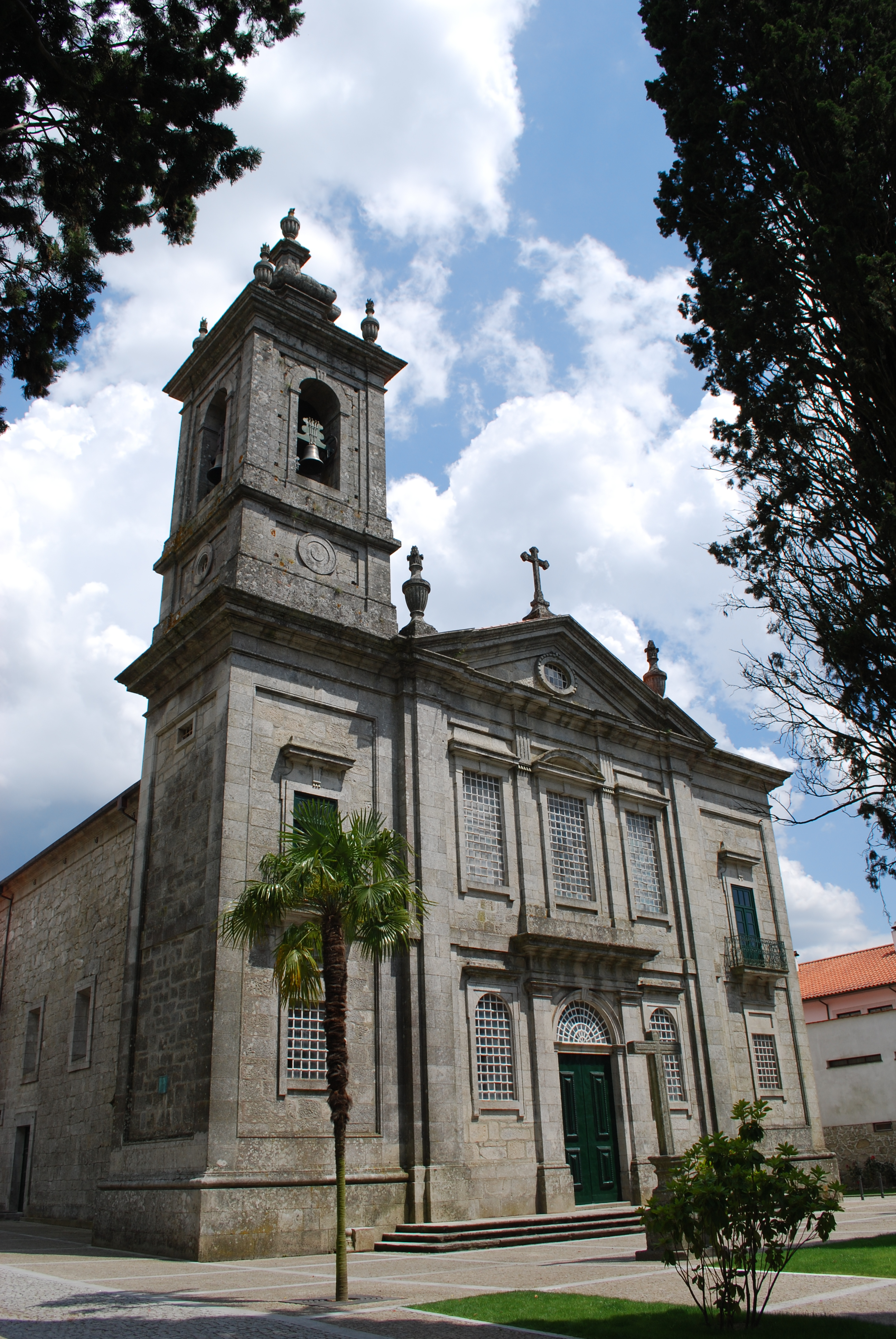 This file was uploaded for Wiki Loves Monuments in Portugal with the unique identifier 73775.